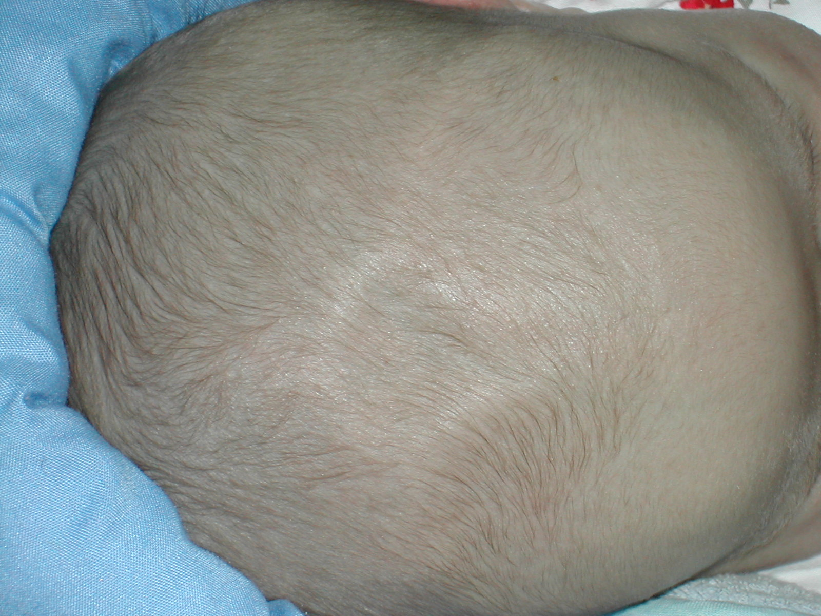 Anterior fontanelle of a 1 month newborn. Amélie, taken with a Nikon Coolpix 775.